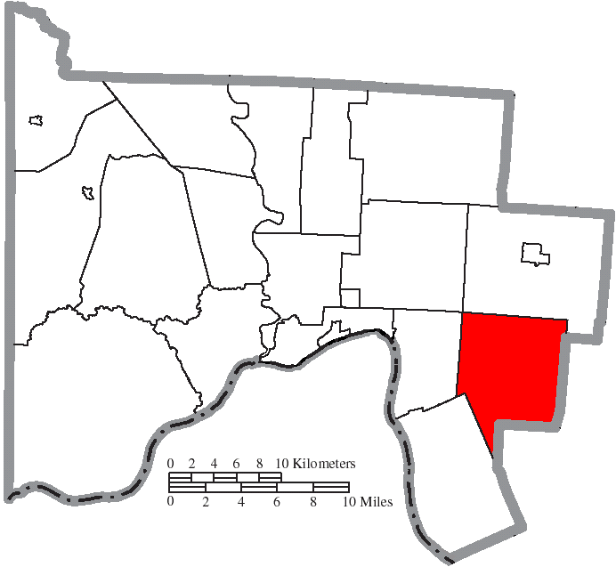 Map of the municipal and township boundaries of Scioto County, Ohio, United States, as of the 2000 census, with the location of Vernon Township highlighted. Township borders are shown only in unincorporated areas in order to differentiate incorporated and unincorporated areas more clearly.